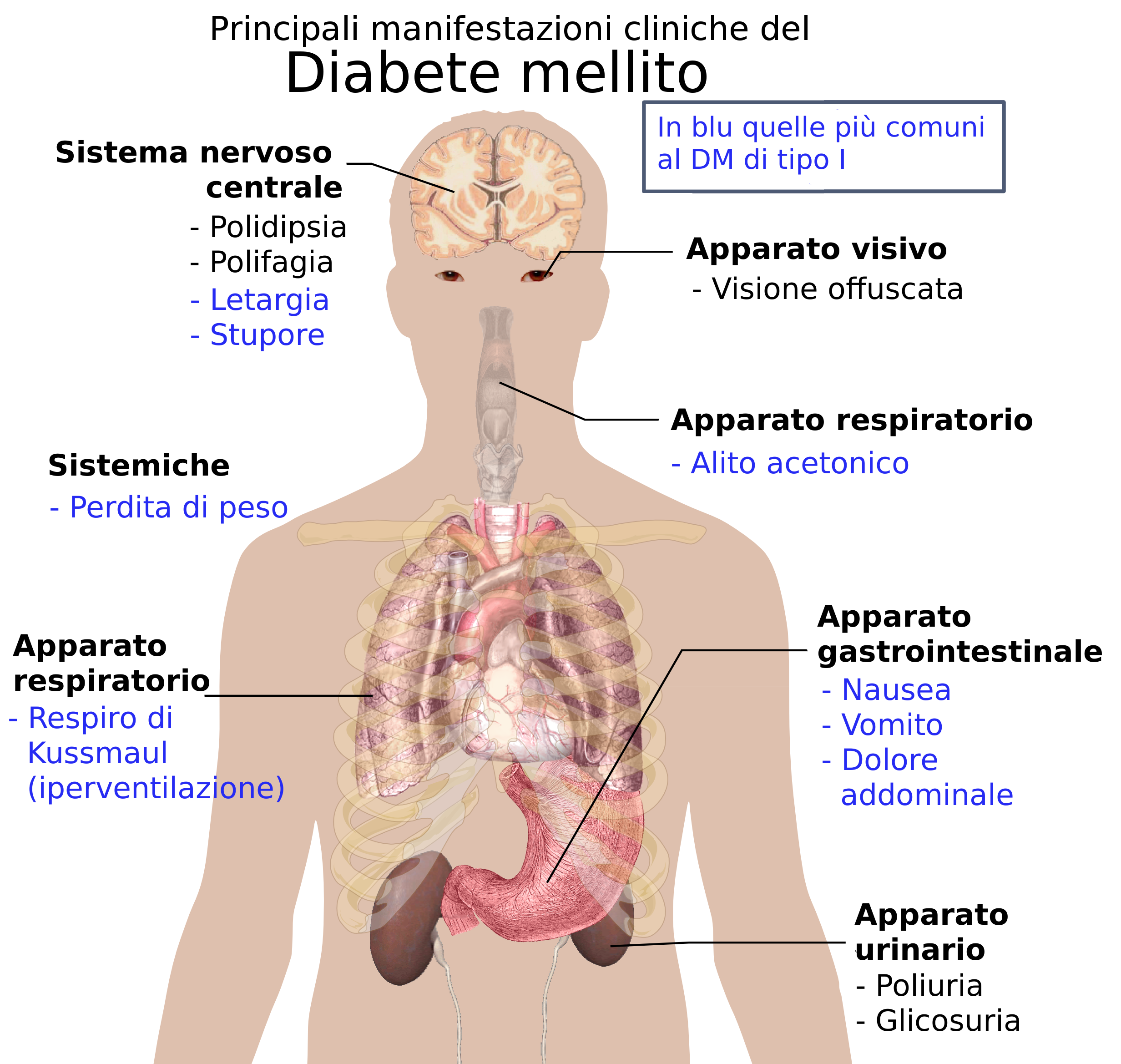 Overview of the most significant possible symptoms of diabetes. See Wikipedia:Diabetes#Signs_and_symptoms for references. To discuss image, please see Template talk:Human body diagrams